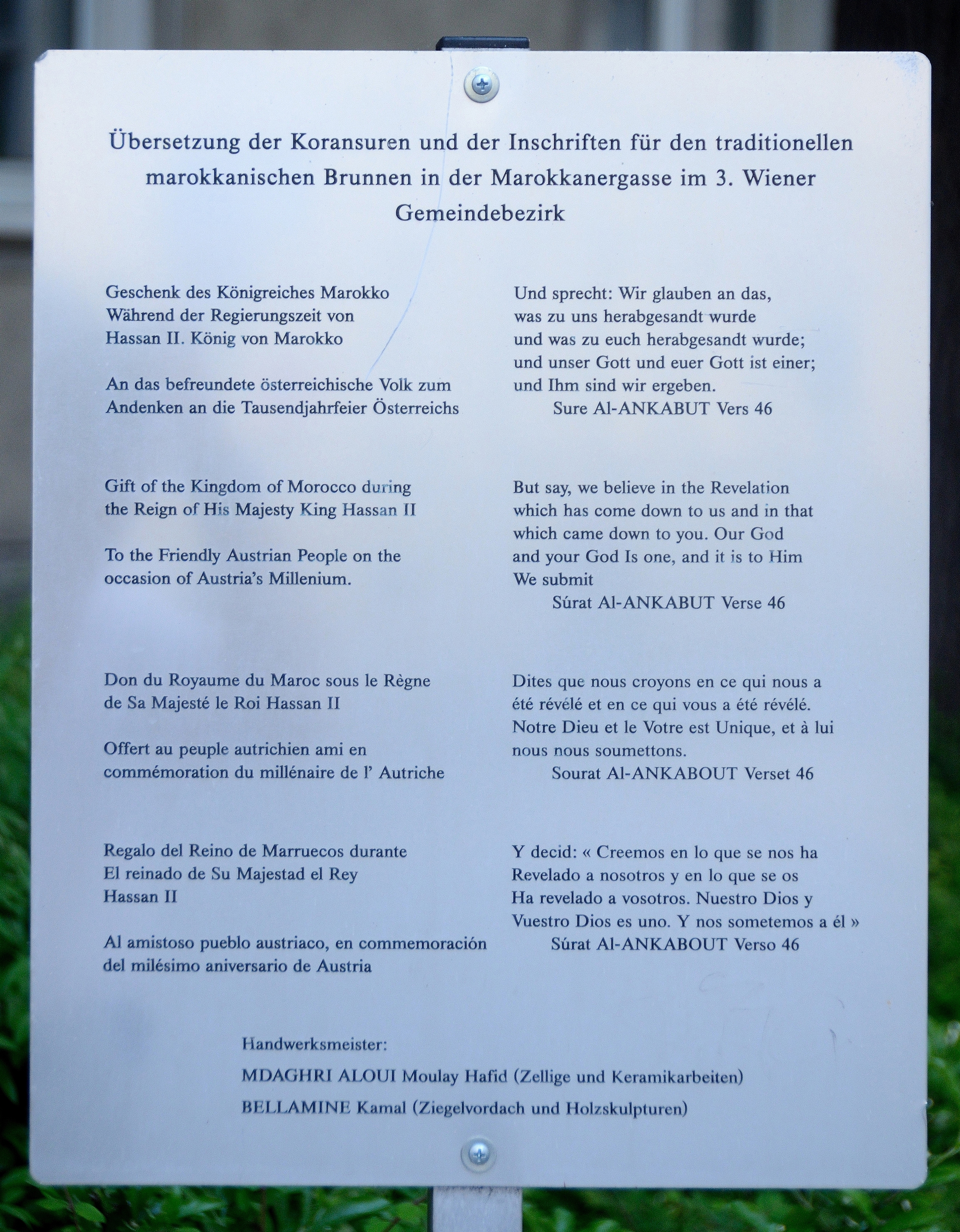 Translation of the inscription at the Maroccan fountain, 3rd district of Vienna